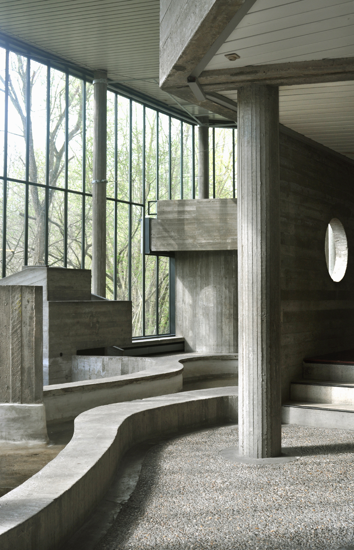 Brutalist playground with castle, hiding places, little pound and sandbox (Westrand Building, Dilbeek, Belgium)